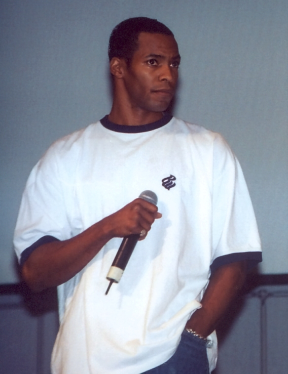 The American actor Anthony Montgomery at the science fiction convention FedCon XII in Bonn, Germany, 2004.